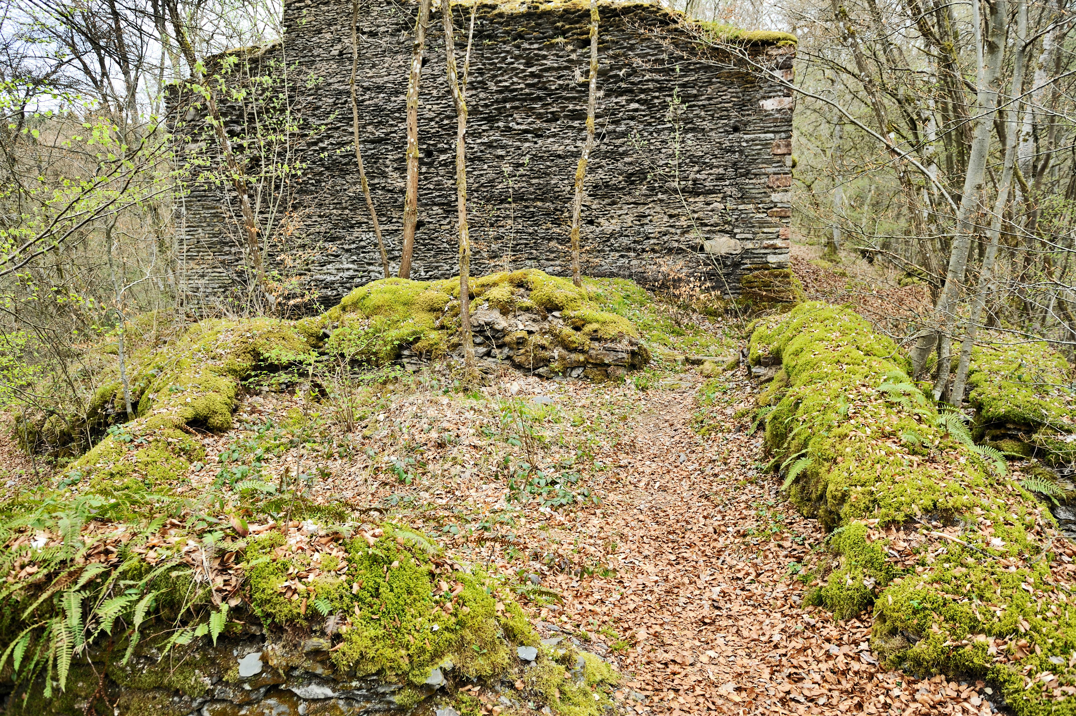 Schuerels castle near Eschette in Luxembourg